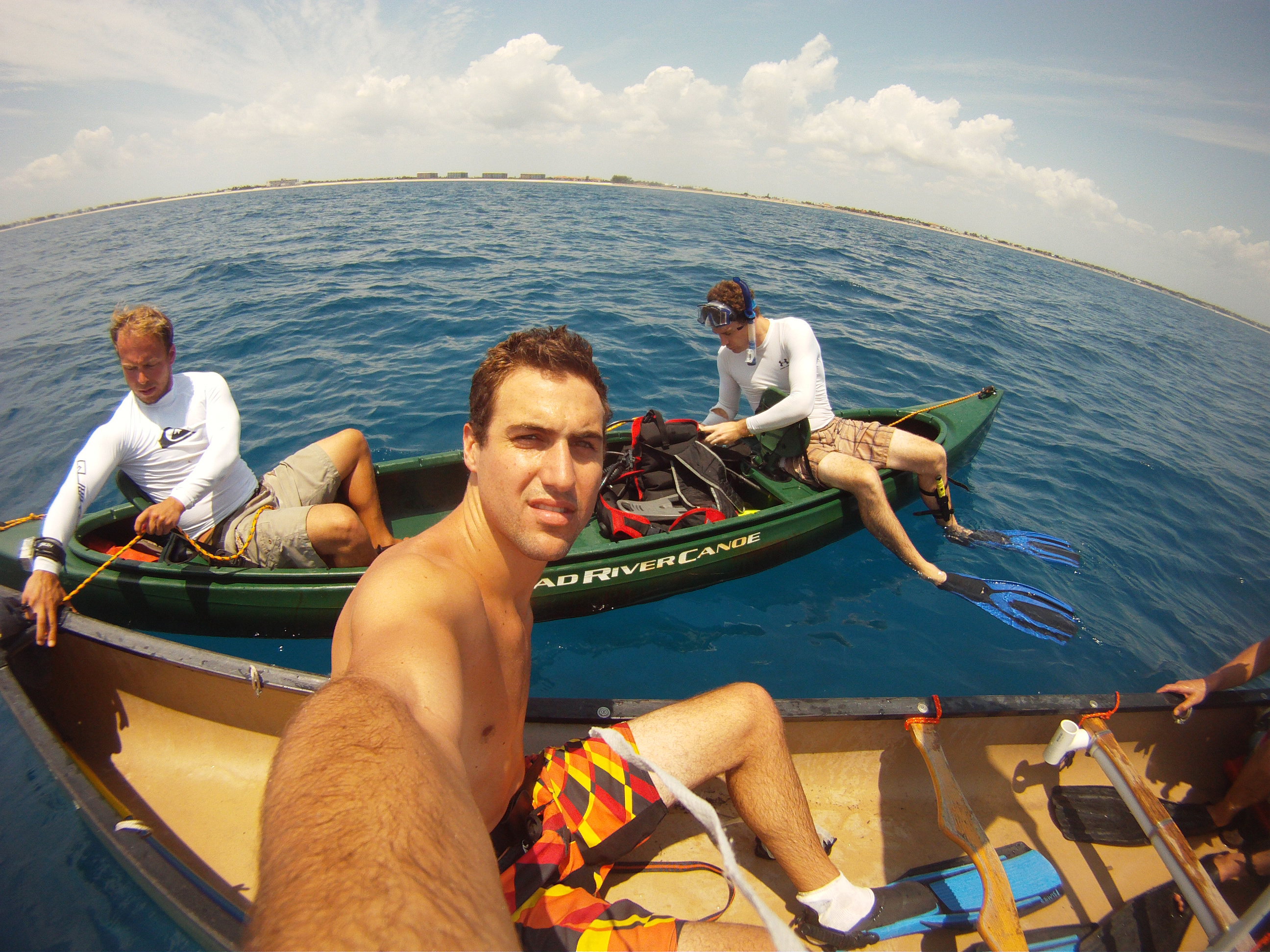 Four canoe divers at an offshore dive site preparing to place their scuba equipment in the water where they will suit up before proceeding with a drift dive.